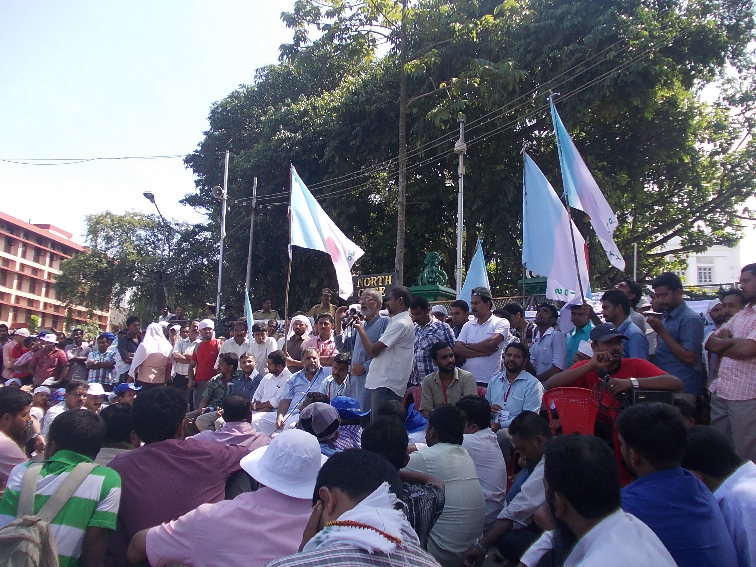 Solidarity Secretariat March 2011 On Malabar Issue